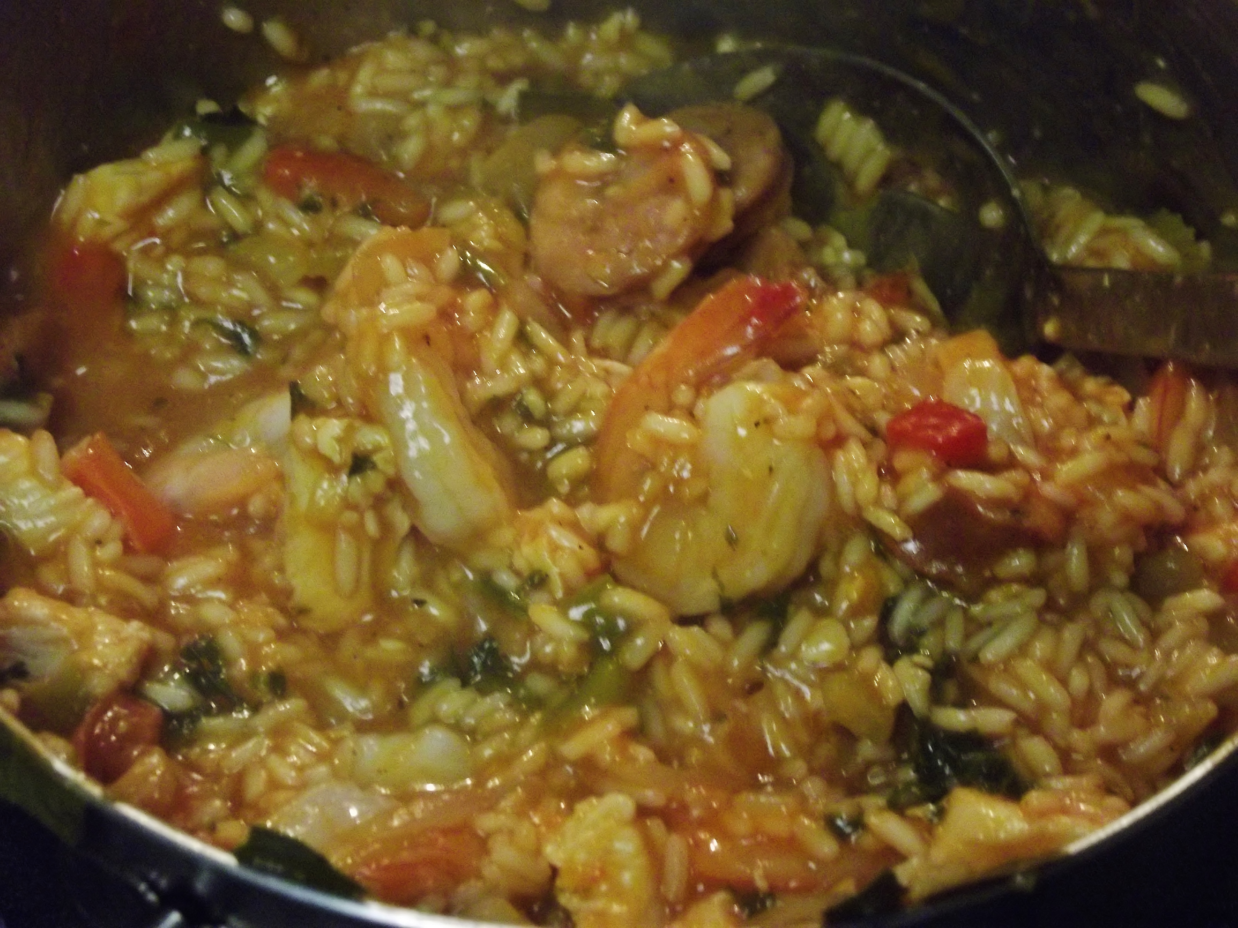 Stove top Jambalaya, almost done.